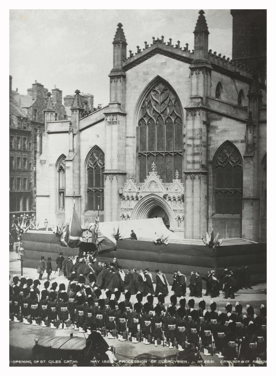 Clergy process into the restored St Giles' Cathedral at its ceremonial re-opening on 23 May 1883. The restoration was funded by former Lord Provost, William Chambers, and overseen by architect, William Chambers. The photograph is by George Washington Wilson.